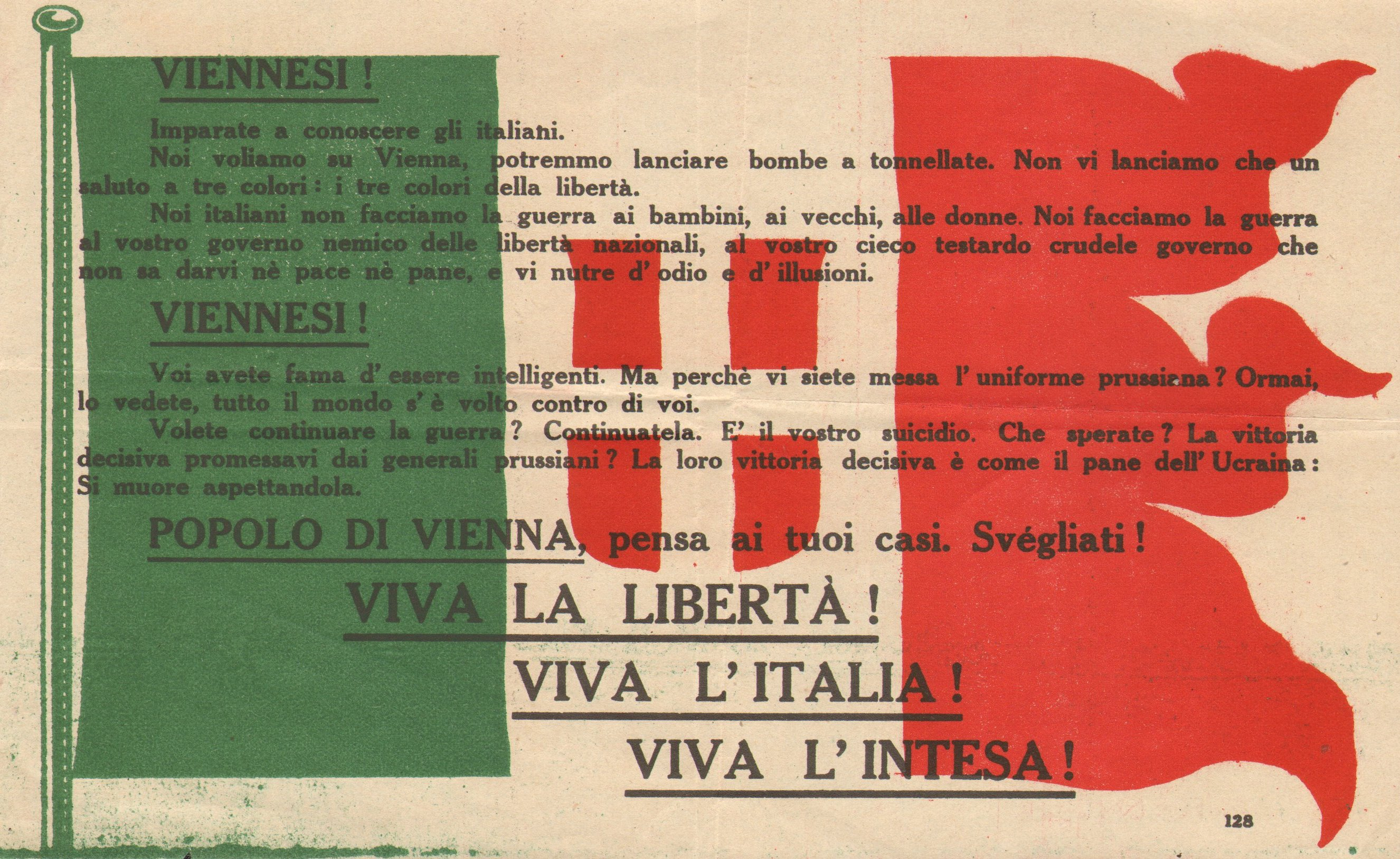 Italian text of the propaganda leaflet written by Ugo Ojetti that Italian poet Gabriele d'Annunzio threw from his airplane during his flight above Vienna. The leaflet, scanned by Emiliano Burzagli, belongs to the private archive of the Burzaghi family, Italy. Translation: VIENNESE! Get to know the Italians. We fly to Vienna, we could drop tons of bombs. We only offer you a three-color greeting: the three colors of freedom. We Italians do not wage war on children, on old people, on women. We wage war on your government, the enemy of national liberty, on your blind, stubborn, cruel government that can give you neither peace nor bread, and feeds you with hatred and illusions. VIENNESE! You must surely be intelligent. But why did you put on the Prussian uniform? By now you see the whole world is against you. Do you want to continue the war? Then continue it. It is your suicide. What do you hope for? The decisive victory promised by the Prussian generals? Their decisive victory is like the bread of Ukraine: One dies waiting for it. PEOPLE OF VIENNA, think about your situation. Wake up! LONG LIVE LIBERTY! LONG LIVE ITALY! LONG LIVE THE [TRIPLE] ENTENTE!